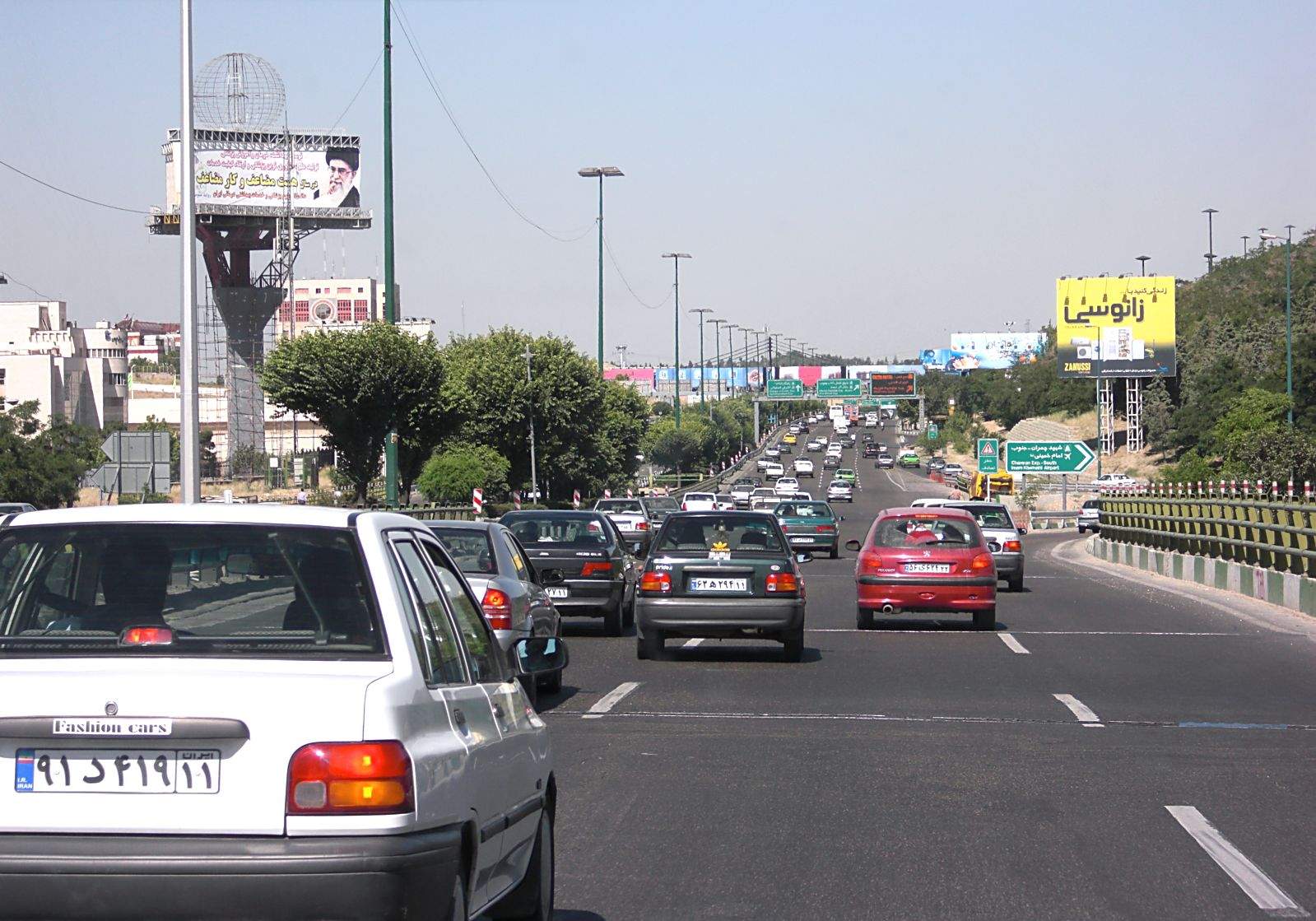 Hemmat highway exit ramp Chamran highway